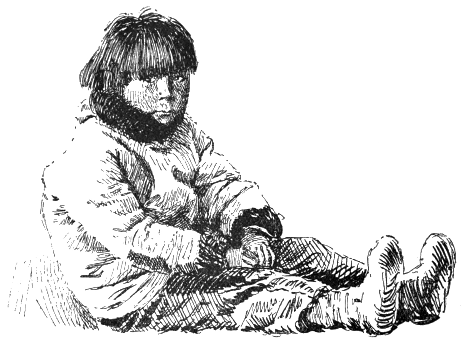 drawing of Inuit boy from Godthaab (Nuuk, Greenland)